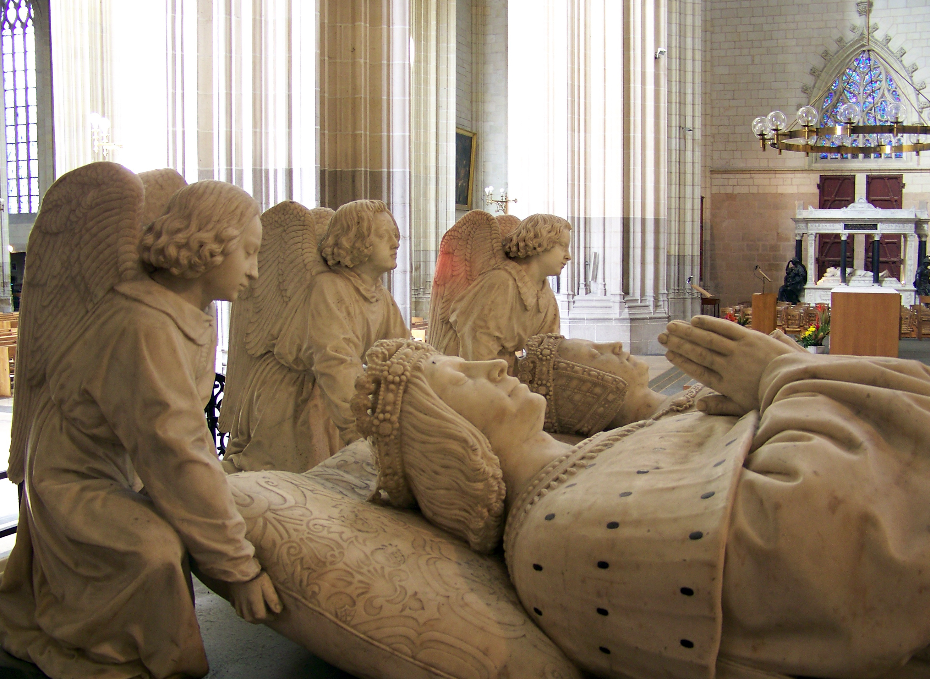 Tumb of François II de Bretagne and Marguerite de Foix, in the Cathédrale Saint-Pierre et Saint-Paul de Nantes (southern transept). It is also the tumb of Marguerite de Bretagne (first spouse of François II) and of Arthur III de Bretagne (uncle of François II).